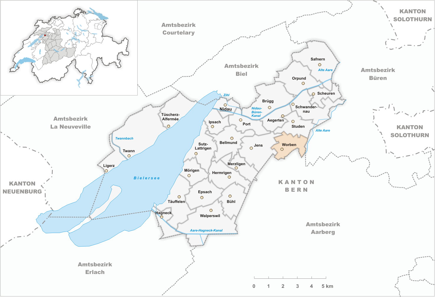 Municipality Worben